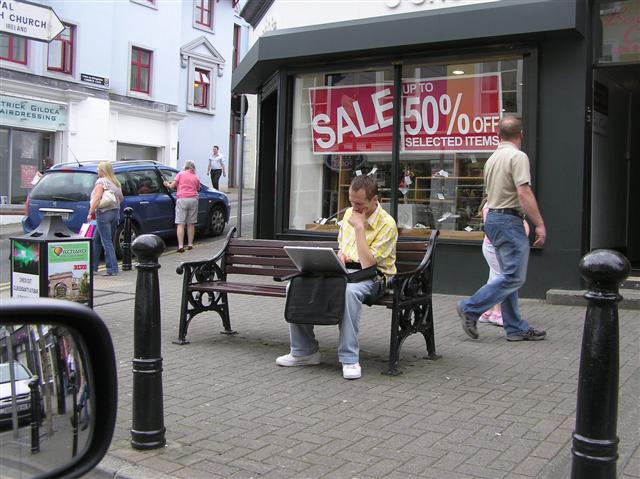 Letterkenny Is this a Wi-Fi hotspot?